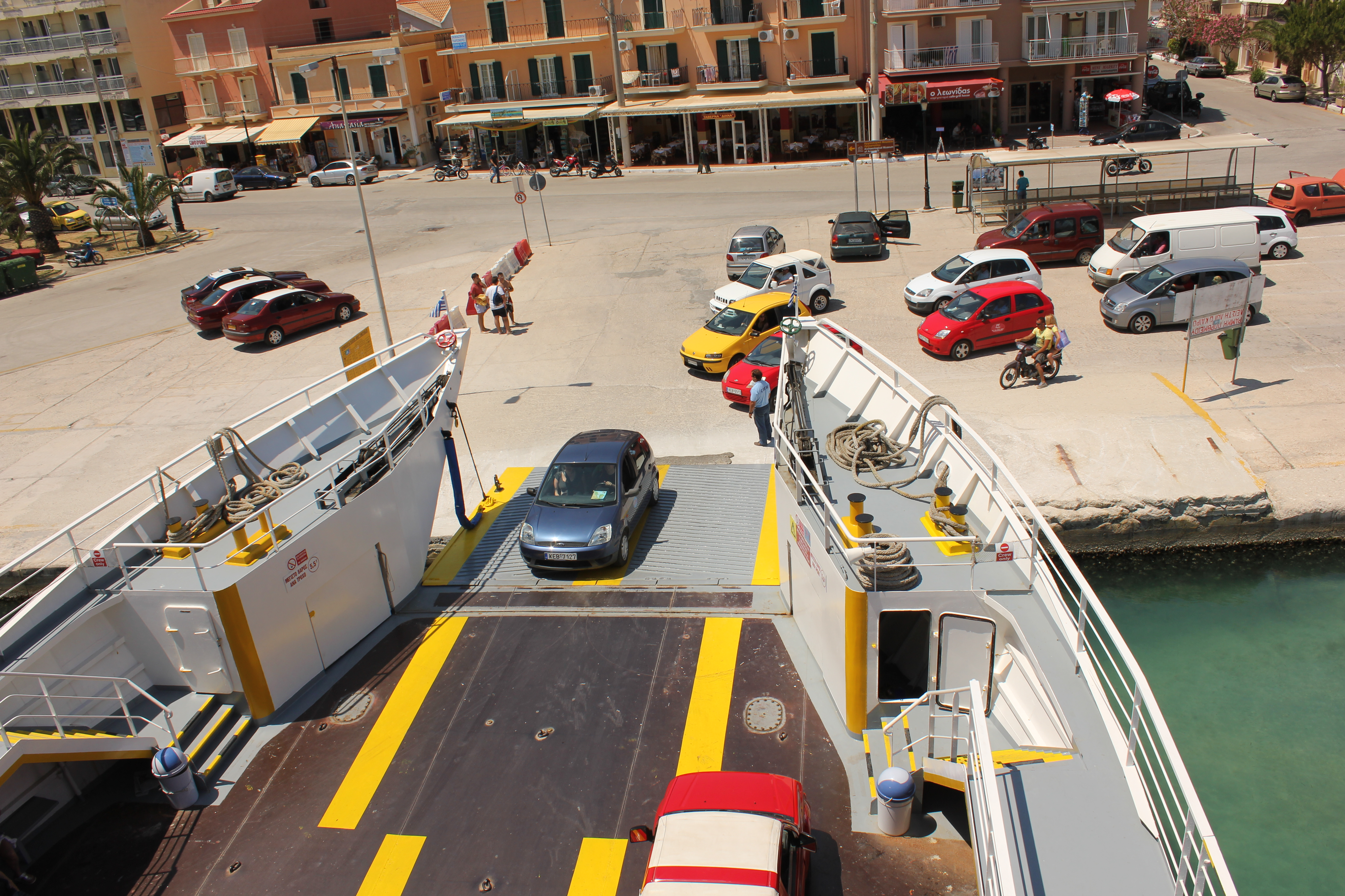 Ferry loading at, Argostoli, Kephalonia, Greece